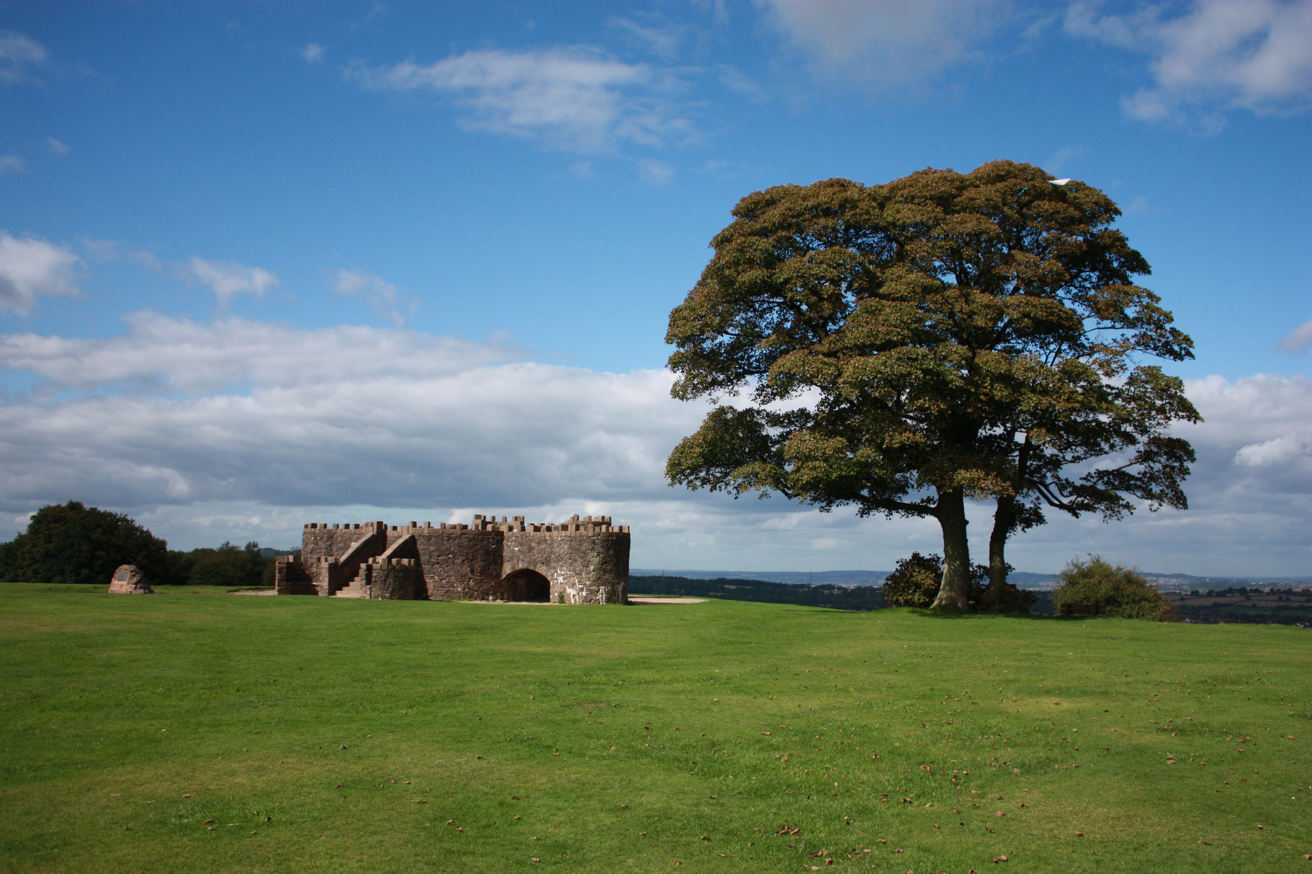 The toposcope on top of Beacon Hill, a constituent hill of the Lickey Hills Country Park. The toposcope has views over the city of Birmingham and surrounding areas